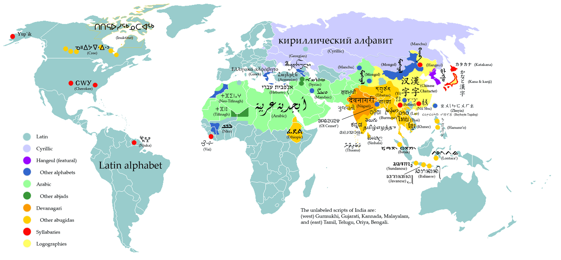 Modification of Writing Systems of the World 3. Corrected Kannada and Telugu labels.